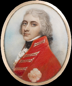 Miniature oval portrait on ivory of General Sir William Henry Pringle (1772-1840).